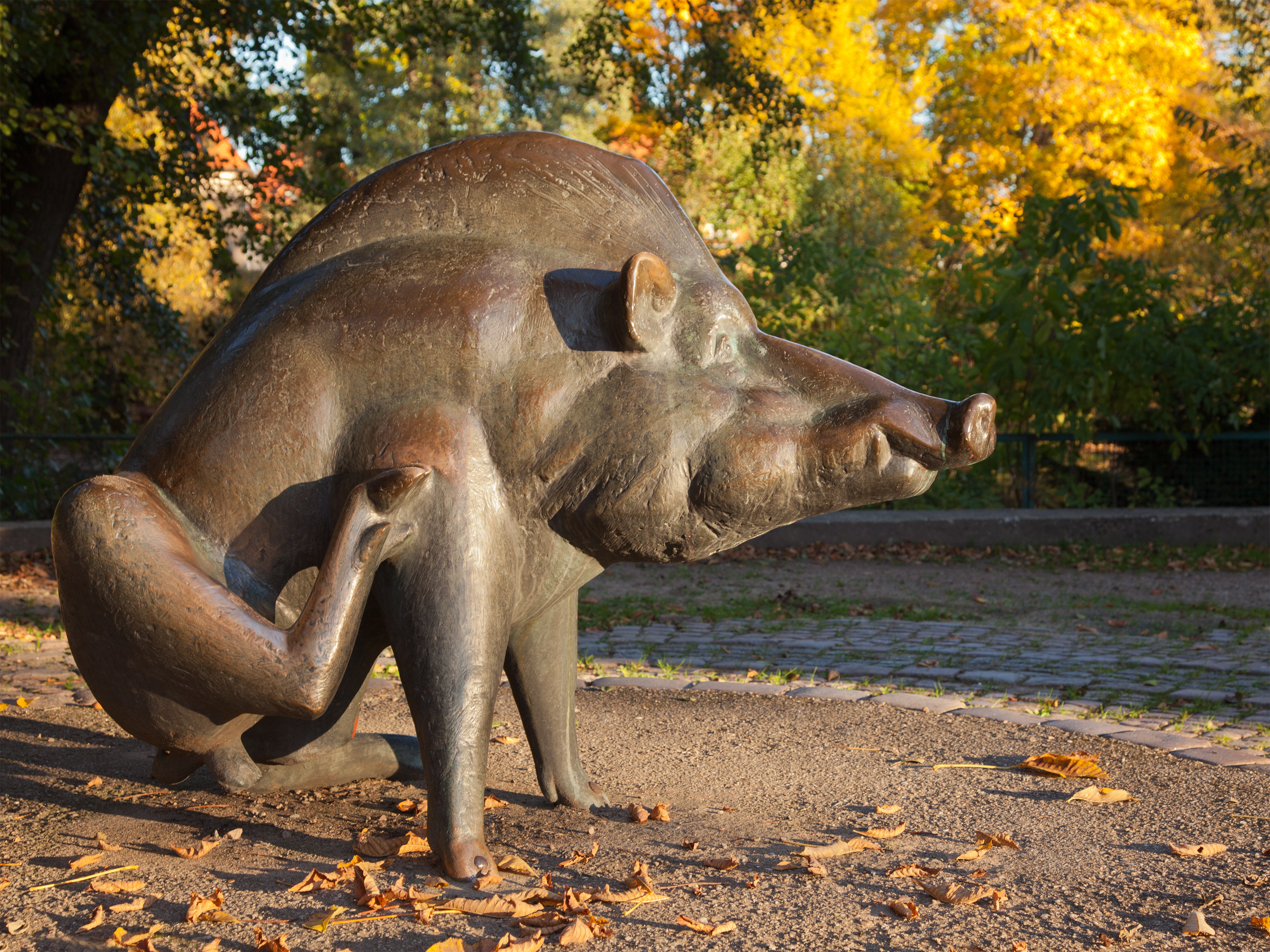 Wild boar, sculpture by Gottfried Kohl in Freiberg, Saxony